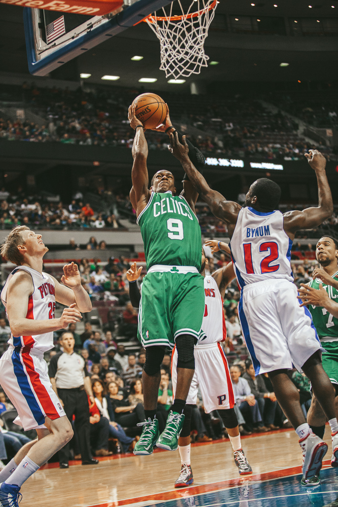 detroit pistons v. boston celtics 1/20/13